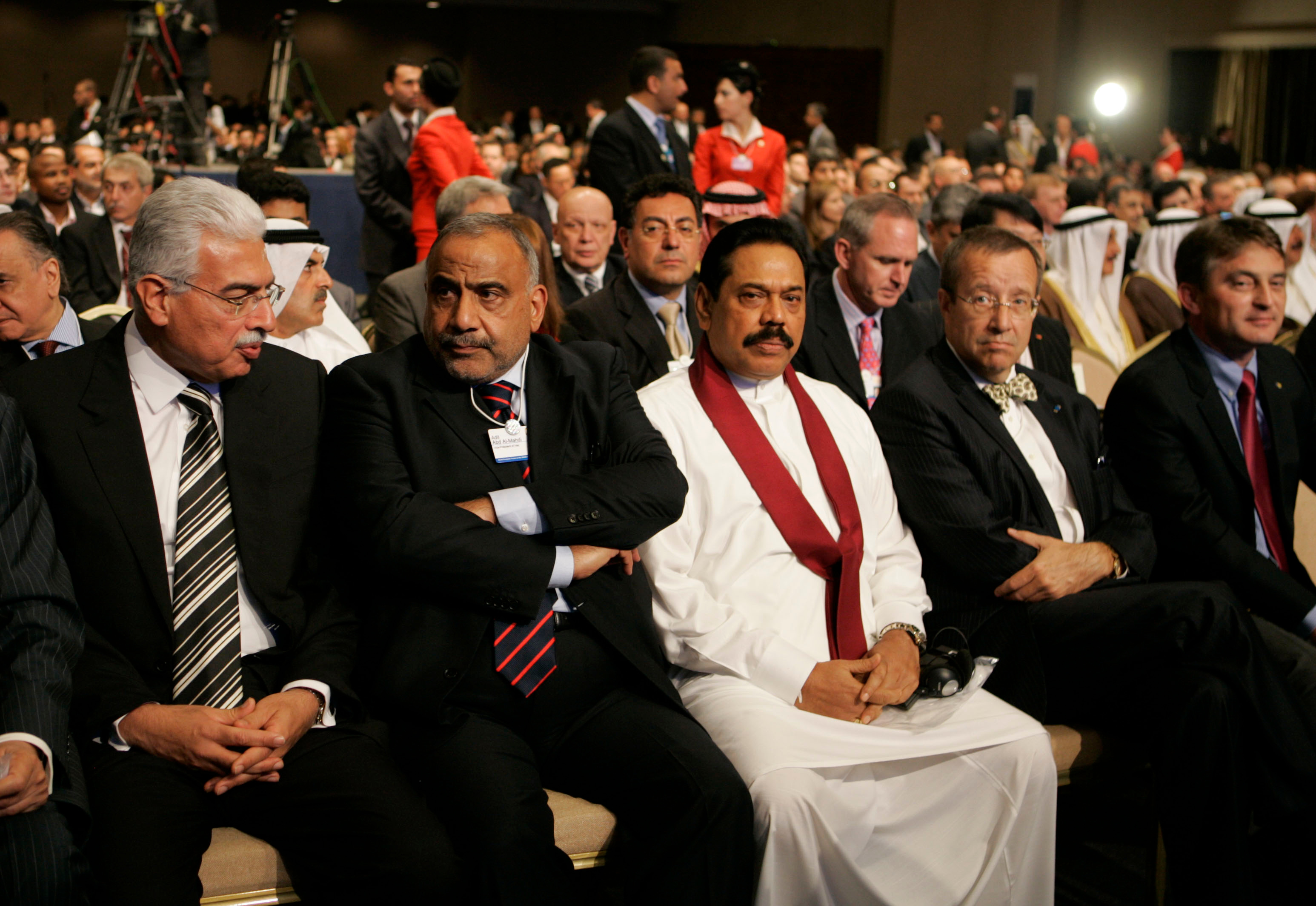 Polticial dignitaries attending the World Economic Forum on the Middle East; Dead Sea, Jordan. Front row, from left to right: Ahmed Mahmoud Nazif, Prime Minister of Egypt; Adil Abdul-Mahdi, Vice-President of Iraq; Mahinda Rajapaksa, president of Sri Lanka, Toomas-Hendrik Ilves, president of Estonia. Copyright World Economic Forum/ Photo by Nader Daoud.